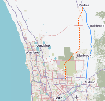 Map of the planned future alignment of the Perth Darwin National Highway's Swan Valley bypass (approximate alignment, shown as a dashed orange line), to be constructed as part of the NorthLinkWA project. The current National Highway alignment is along Great Northern Highway, shown in blue.